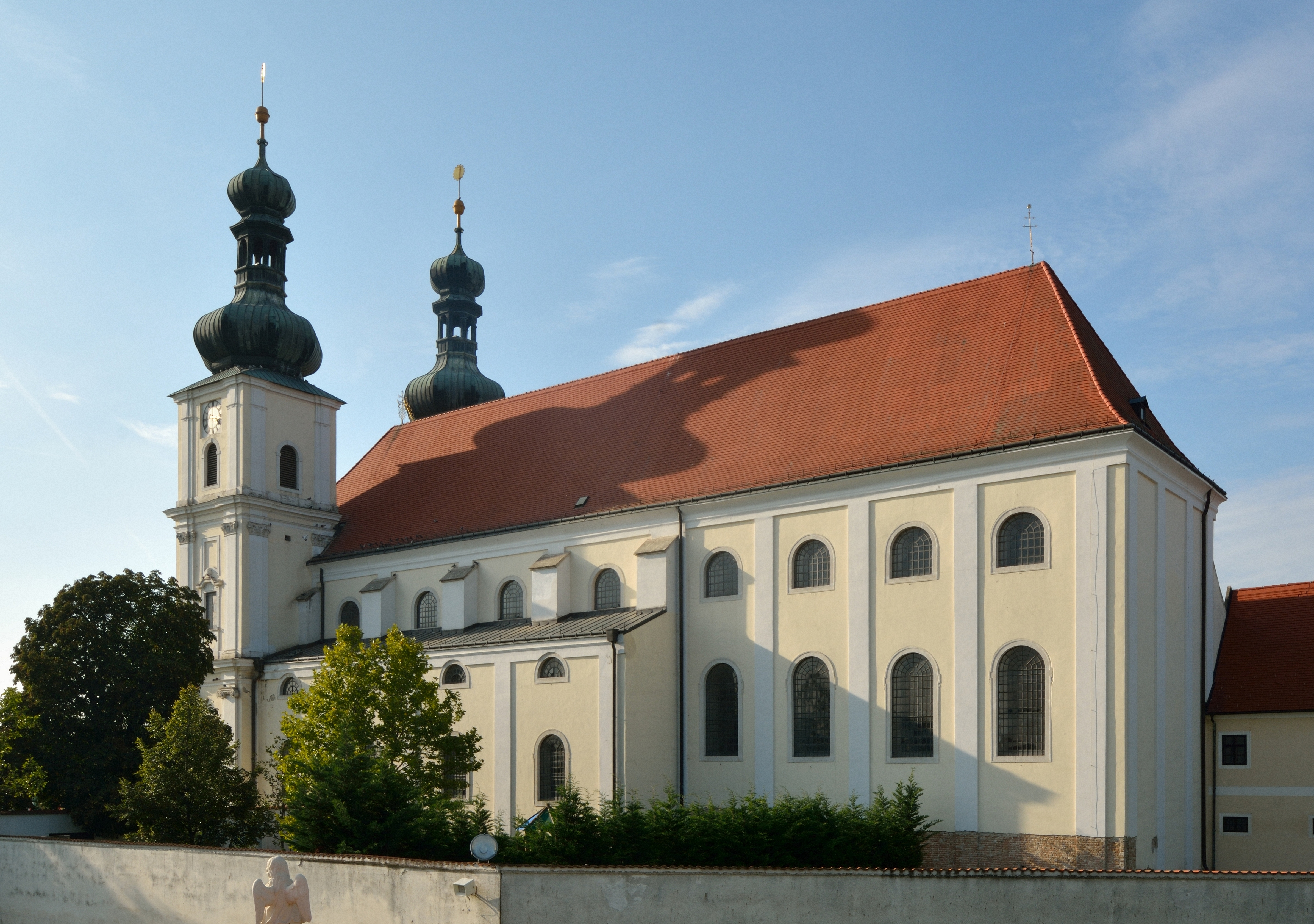 Basilica Mariä Geburt as seen from calvary, Frauenkirchen, Burgenland